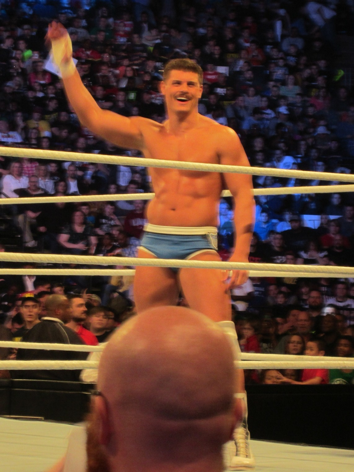 Cody Rhodes in a WWE Raw show in February 2013